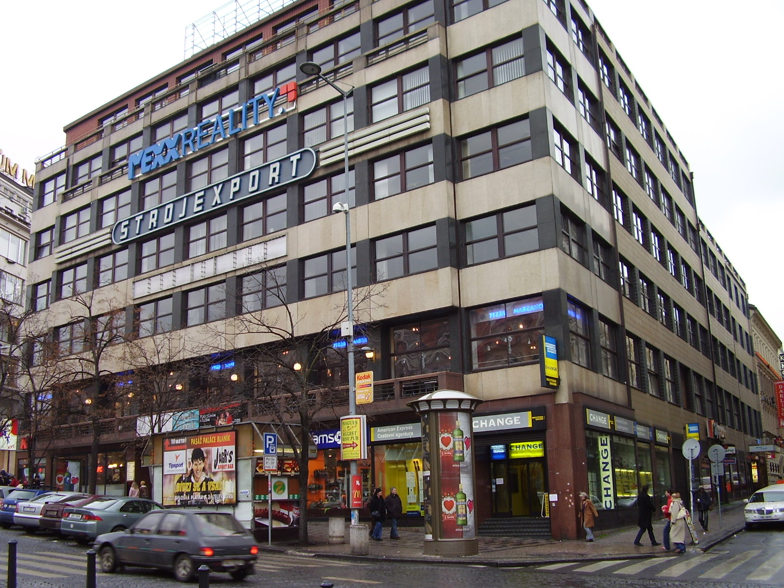 Prague november 2006